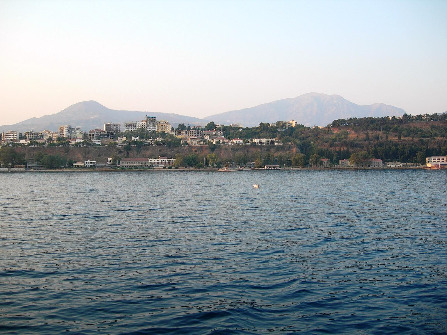 Aigio as seen from the Corinthiac bay